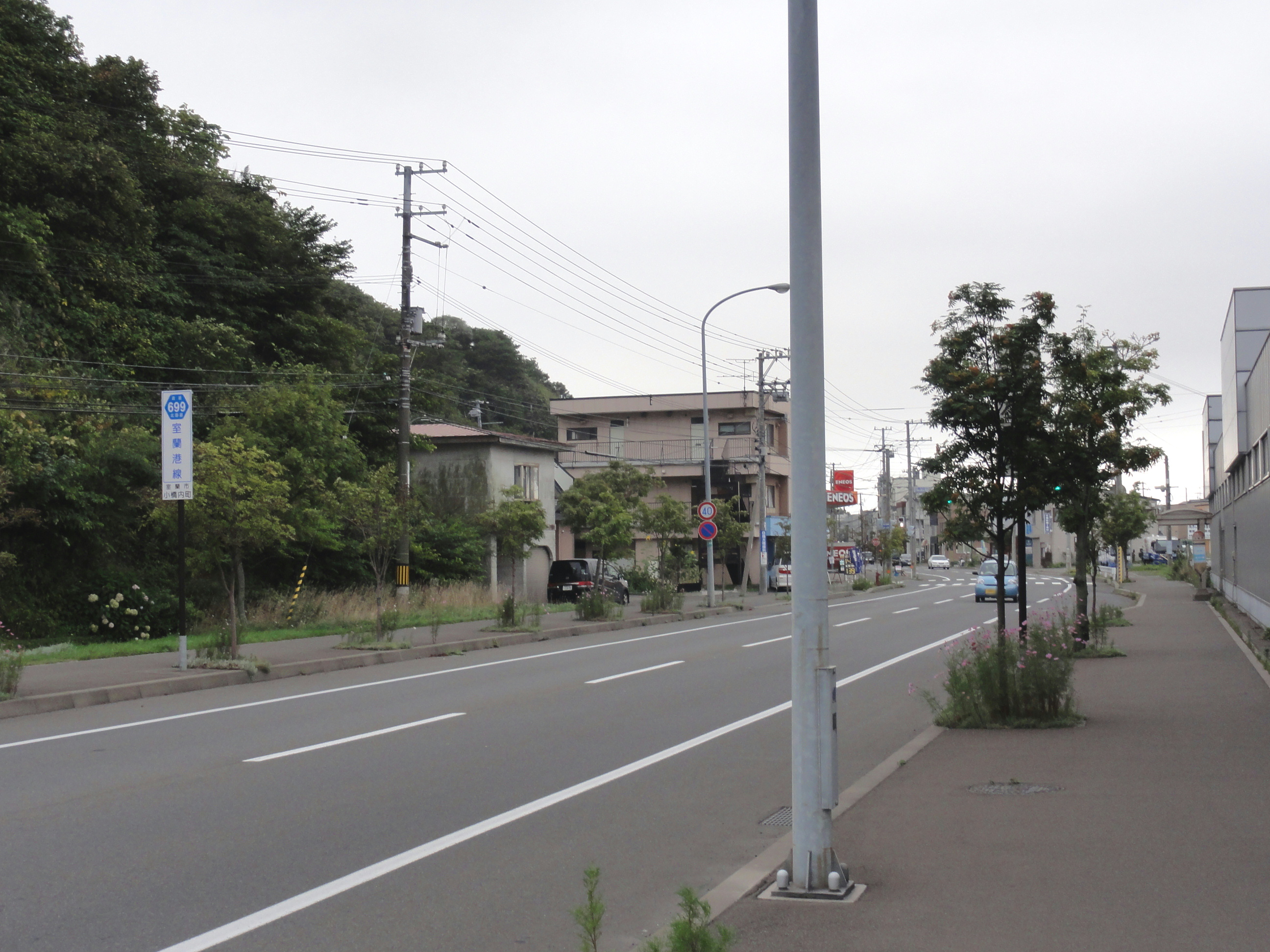 Hokkaido Pref Route 699 (Muroran, Hokkaidō)